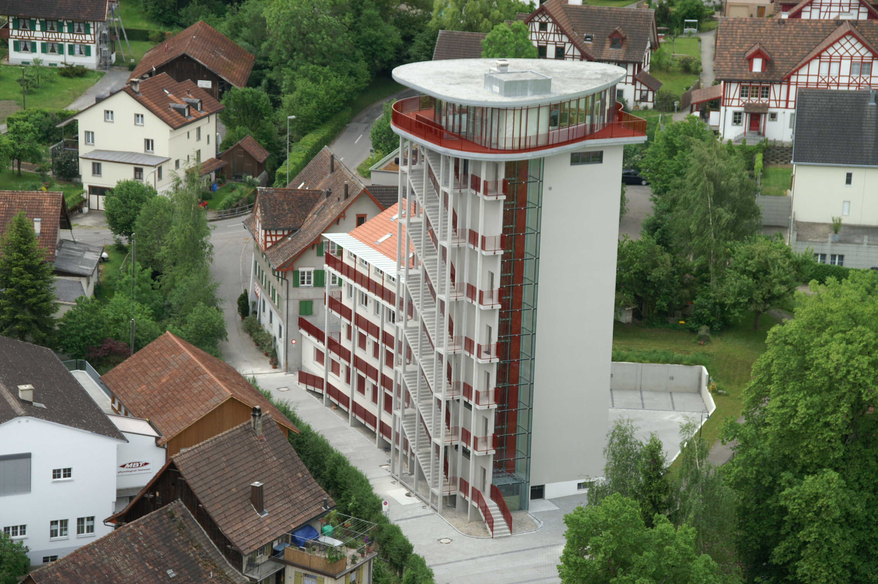 kybun Tower in Roggwil(TG), Switzerland. The 30 meter high tower was a mill before the modification took place in 2006/2007. As of today it's the headquater of the kybun AG. The picture was taken out of a helicopter. In the background you can see typical half-timbered houses.